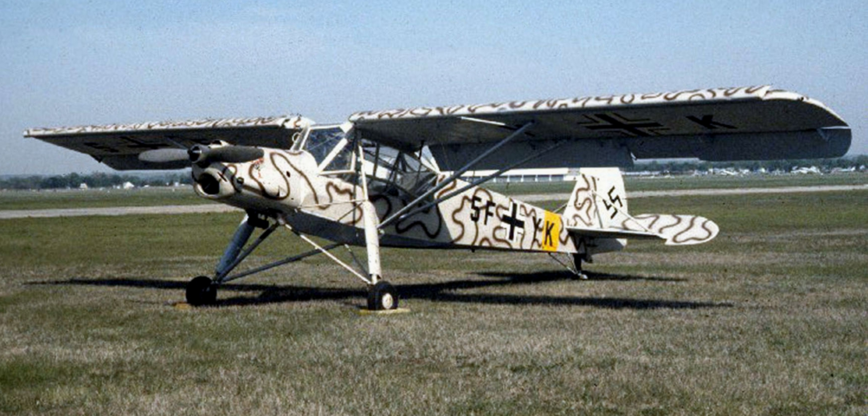 A former German Fieseler Fi 156C-1 Storch liasion plane now in the National Museum of the U.S. Air Force, Ohio (USA). The plane "5F+YK" belonged to the 2.(H)/Auf.Kl.Gr.14, a short-range reconaissance unit in North Africa. The museum's Fi 156 is painted as the Storch used by Field Marshal Erwin Rommel in North Africa. Built in 1940, it was exported to Sweden where it remained until 1948. It was donated to the Museum in 1974.